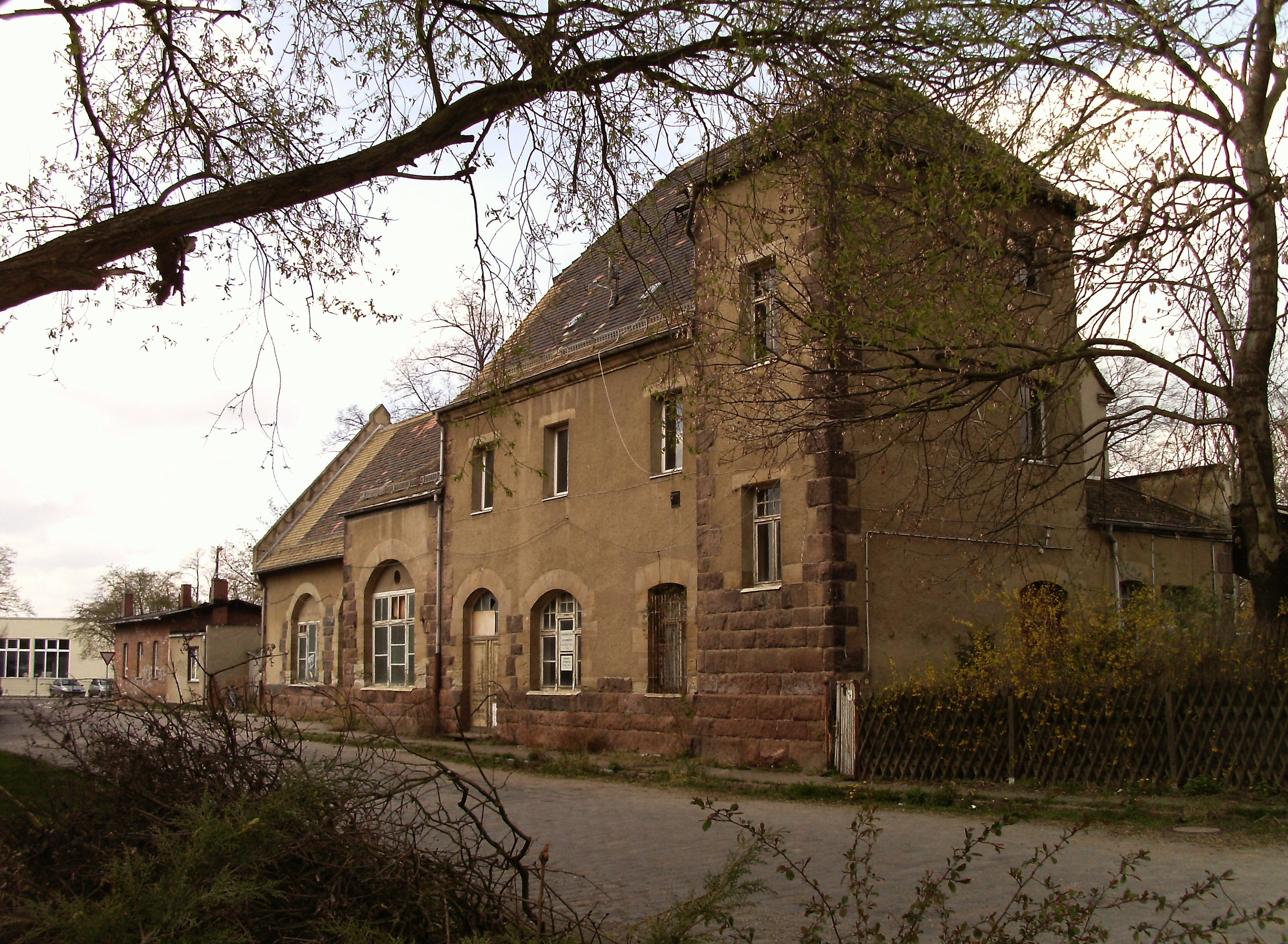 Miltitz train station (Leipzig, Saxony)